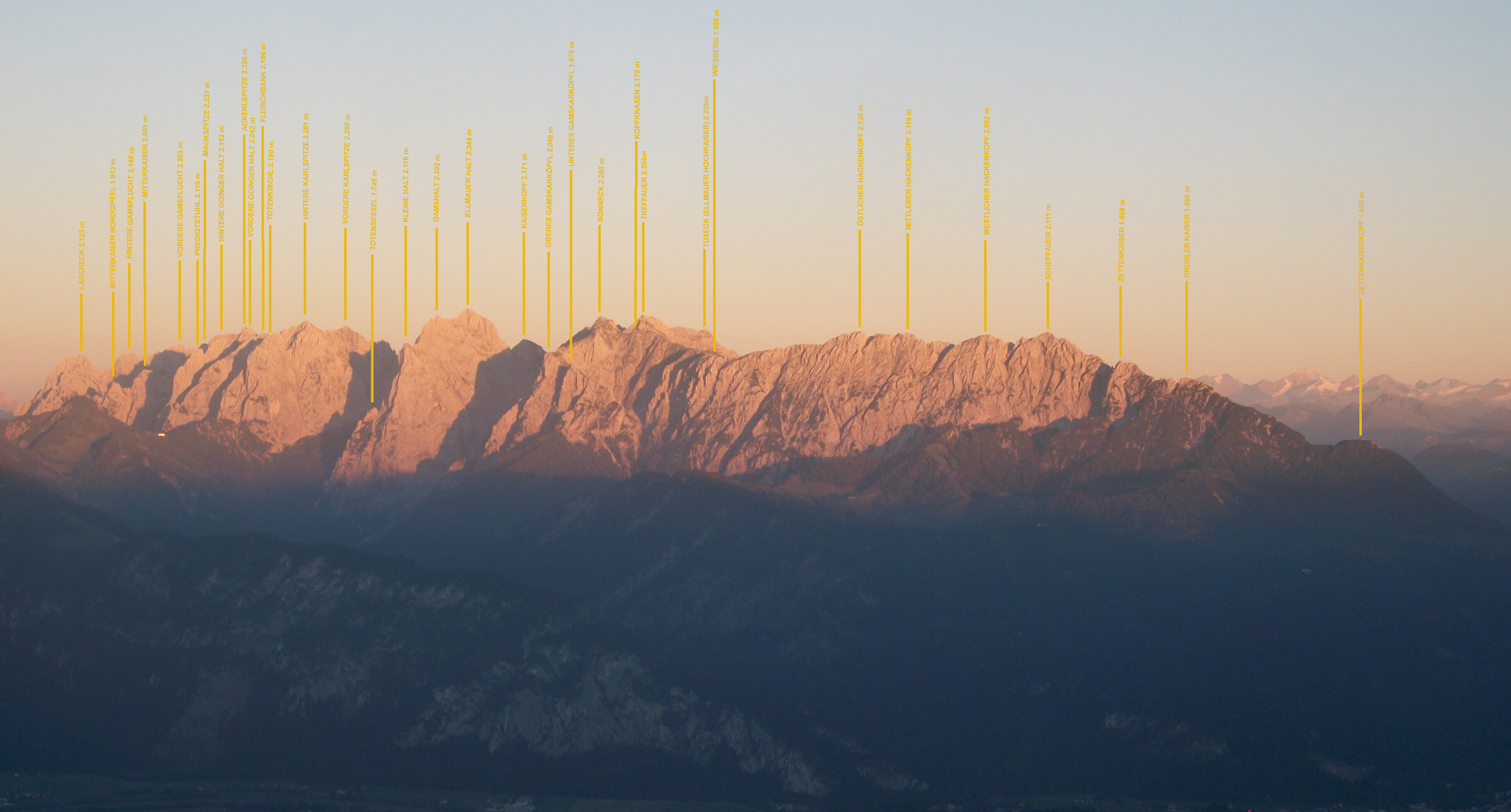 View from Brünstein to Wilder Kaiser Mountains